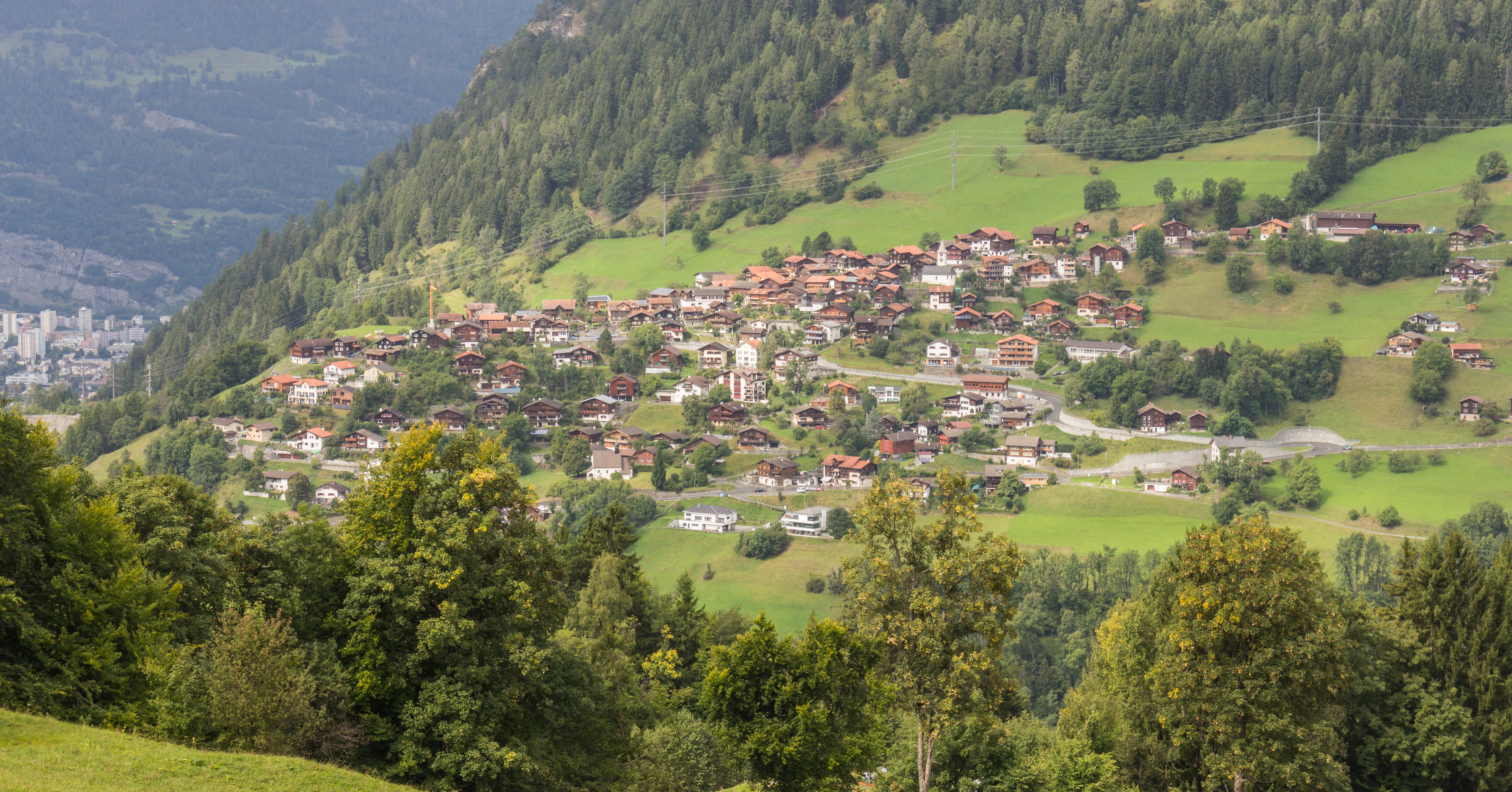 Mountain trip from Churwalden Mittelberg (1500 meter) via Ranculier and Praden towards Tschiertschen. View of Maladers, (Zwitserland).